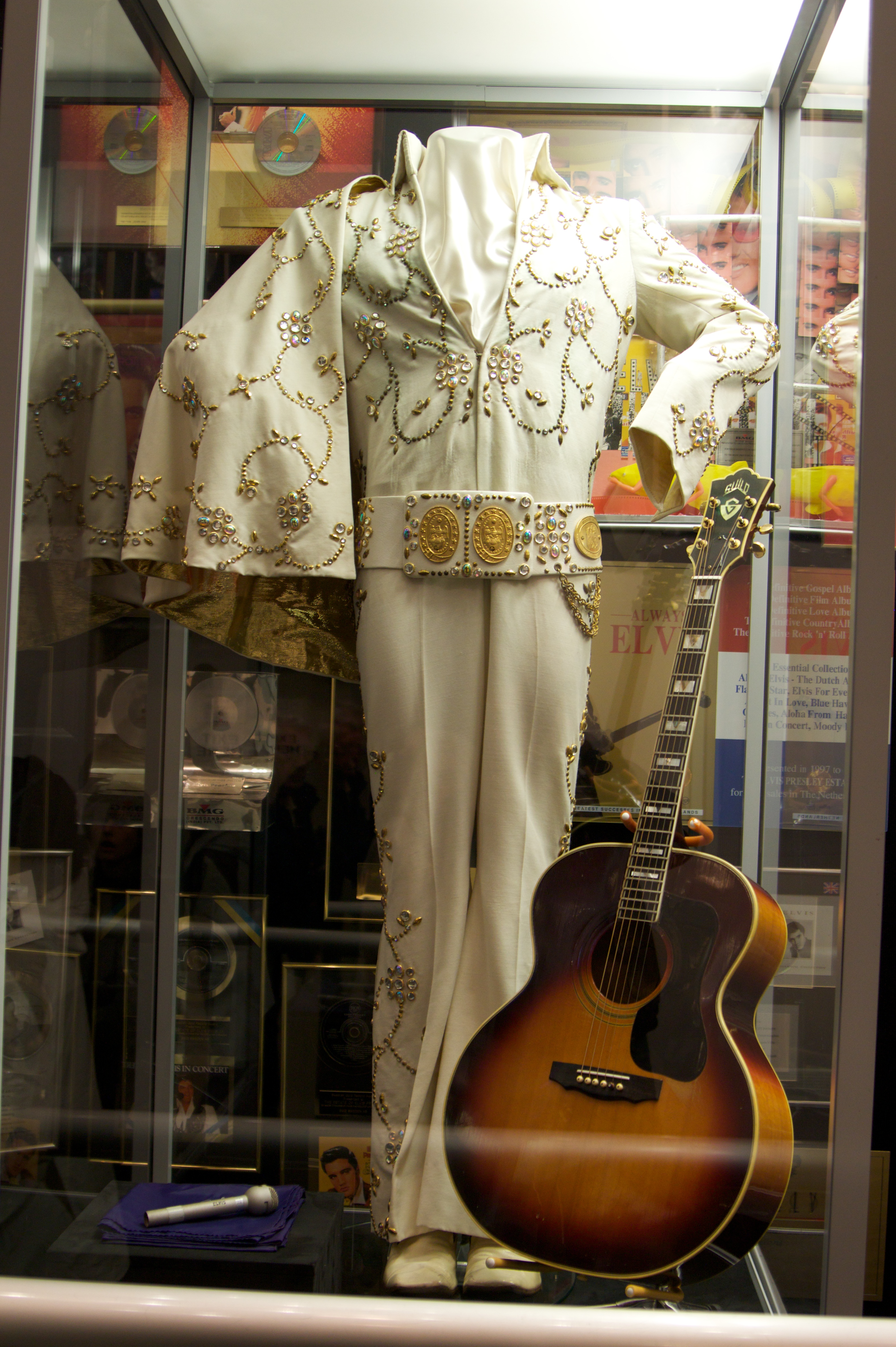 A trip to Graceland